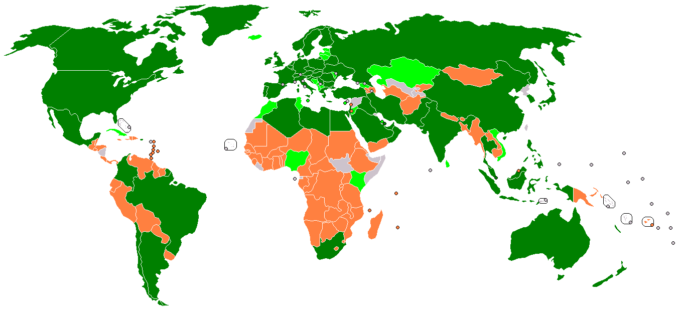 dark green - full members; light green - associate members; orange - affiliates